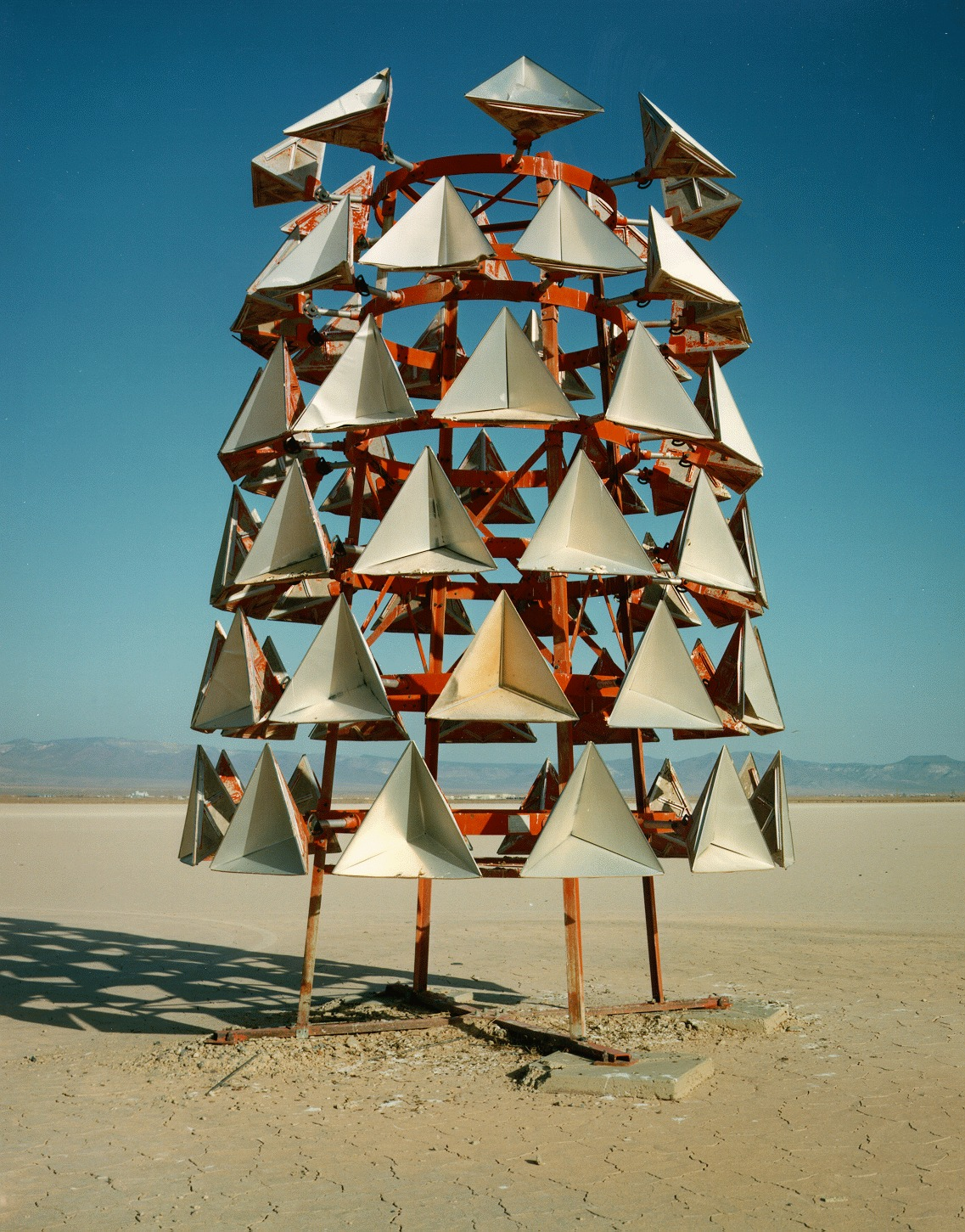 Nevada Test Site - Area 6 Radar retroreflector tower located in the center of Yucca Flat dry lake bed. Used as a radar target by maneuvering aircraft during inert contact fusing bomb drops at Yucca Flat. Sandia National Laboratories conducted the tests on the lake bed from 1954 to 1956.